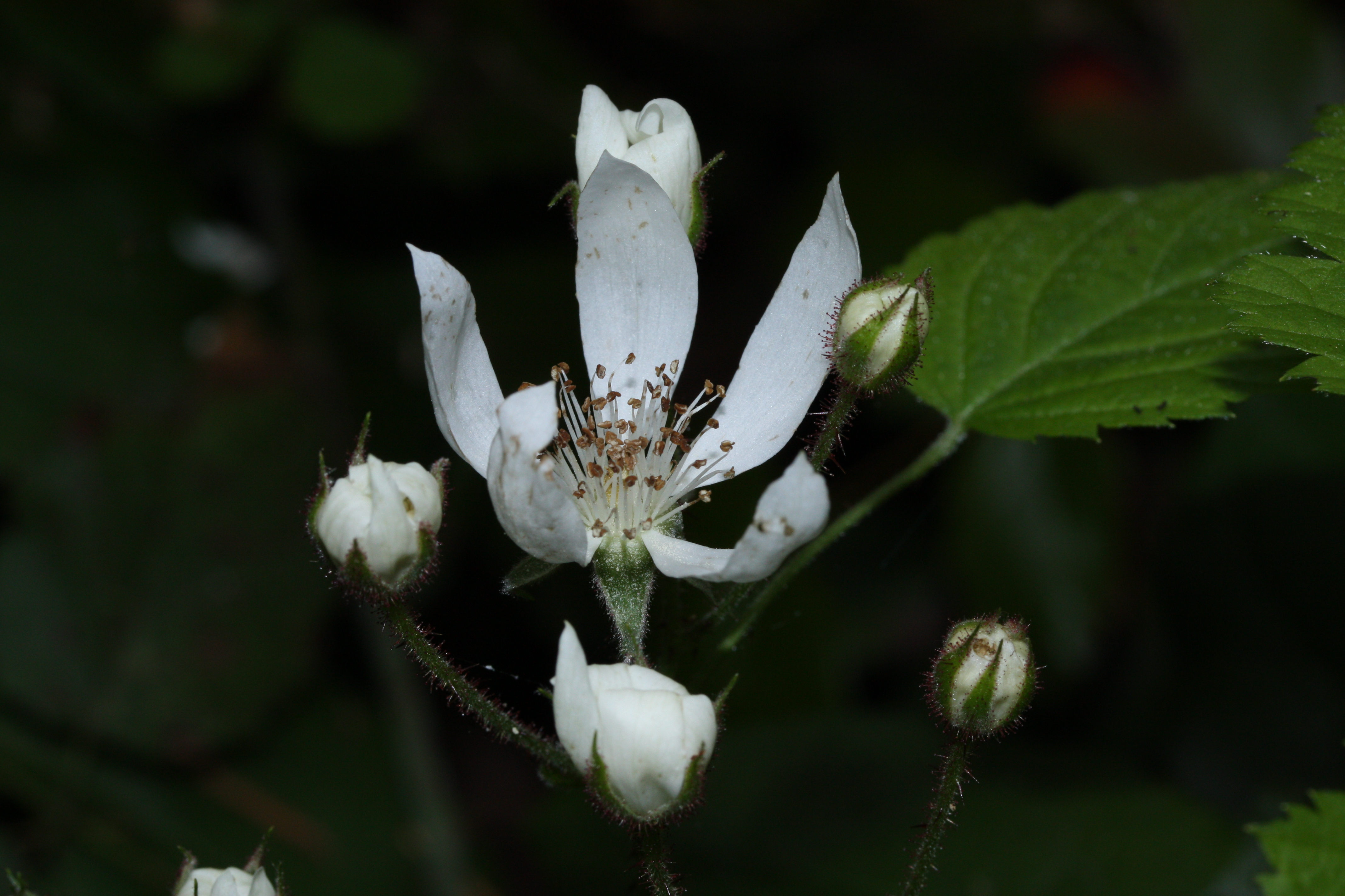 California Blackberry, Dewberry